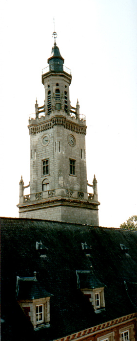 The belfry of the Hesdin town hall